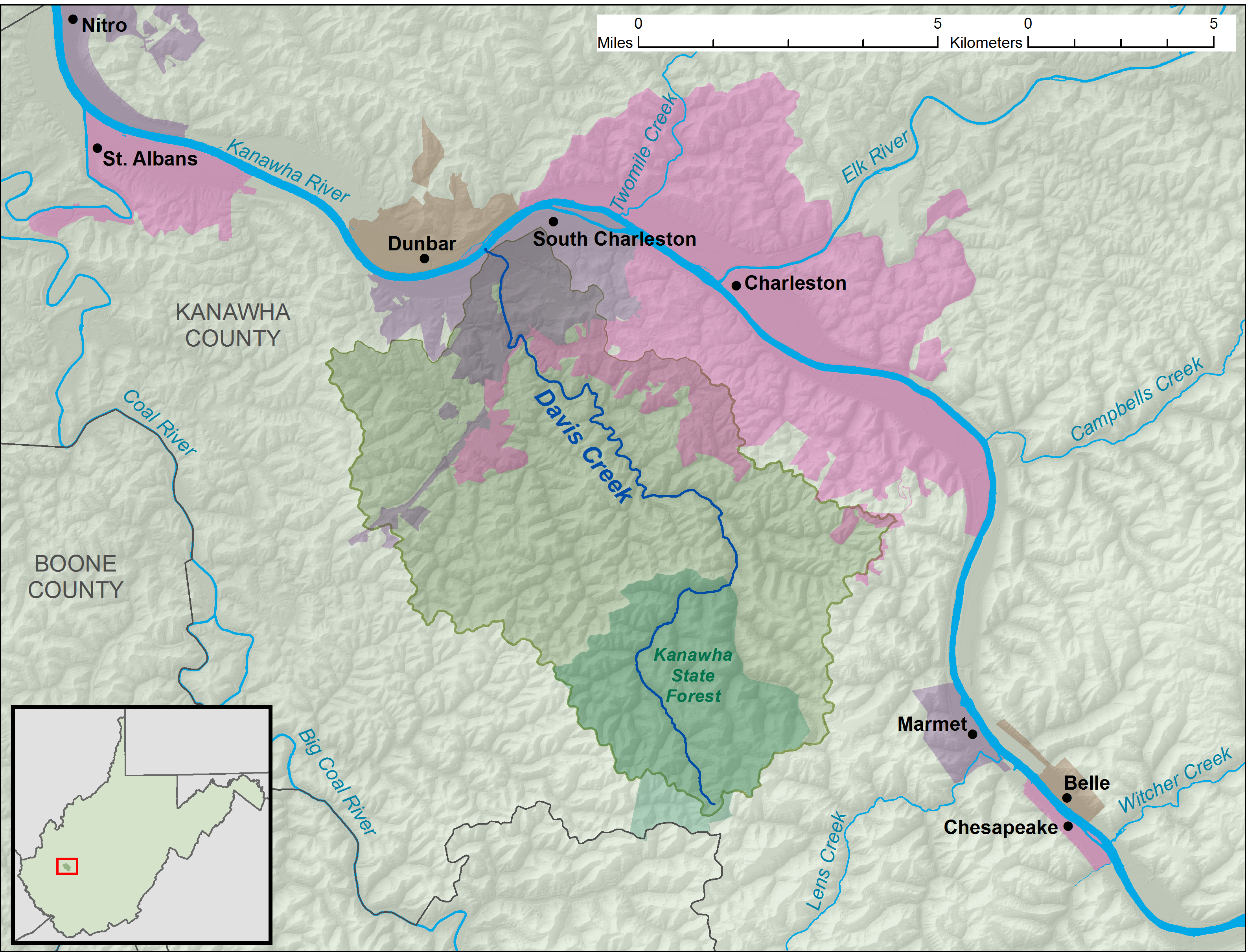 A map of Davis Creek and its watershed (USGS HUC-12 code 050500080302), in Kanawha County, West Virginia.